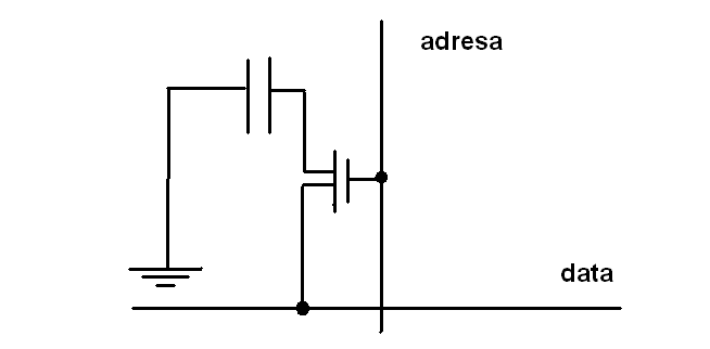 A one-transistor DRAM cell